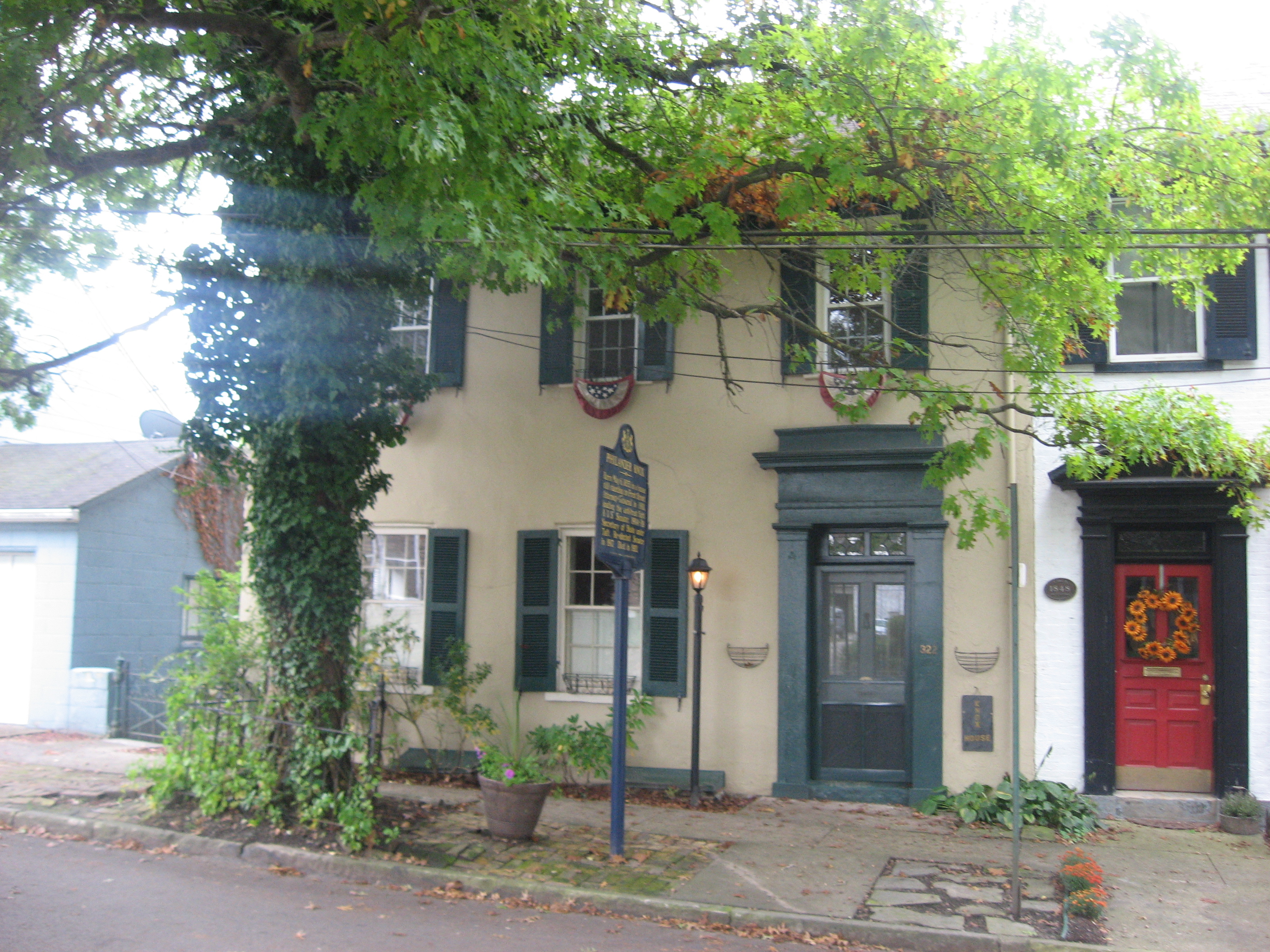 Front of the Philander C. Knox House, located at 322 Front Street in Brownsville, Pennsylvania, United States. It is part of the Brownsville Northside Historic District, a historic district that is listed on the National Register of Historic Places.